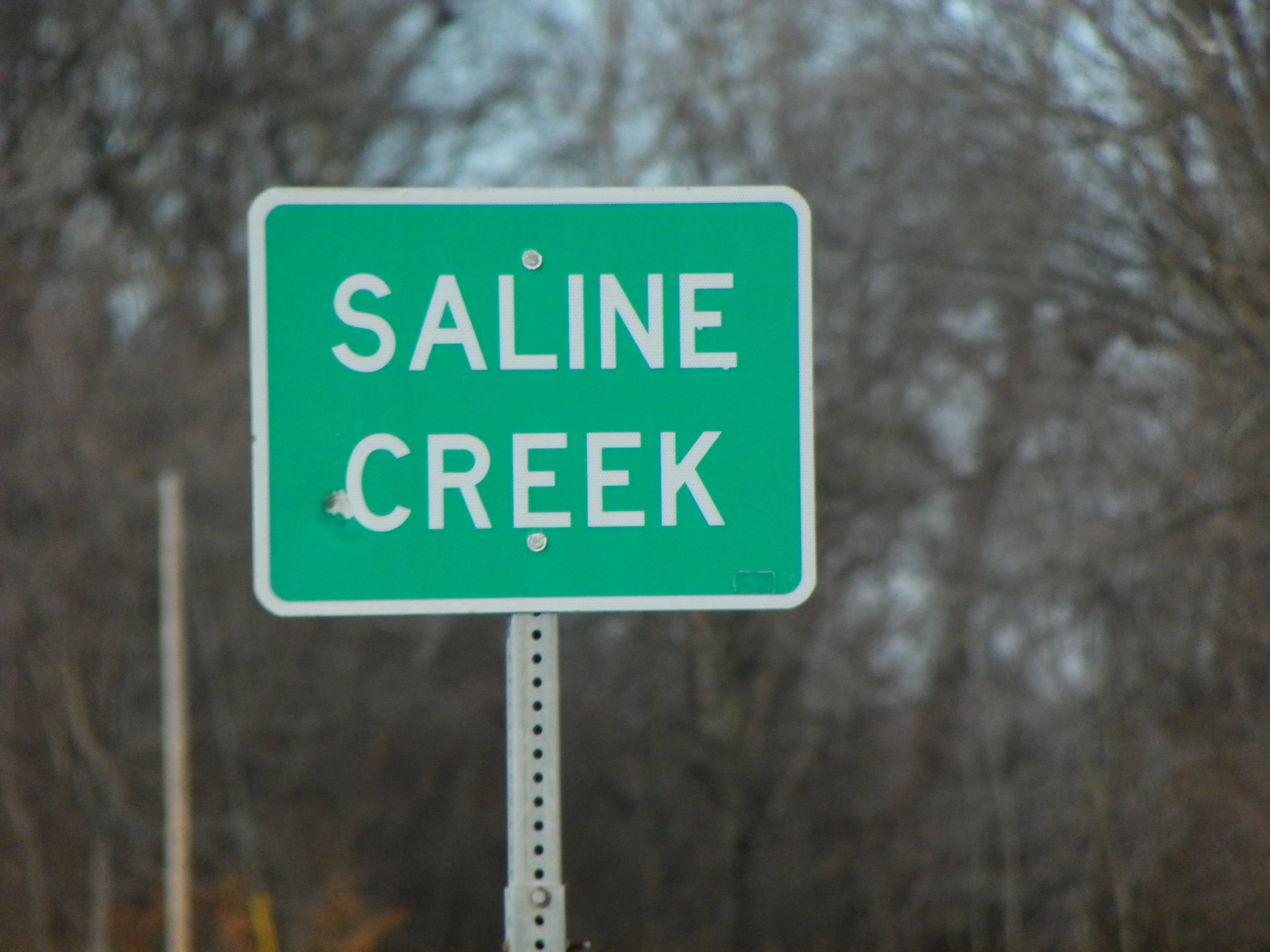 Saline Creek, Missouri Bridge Sign over Highway 61